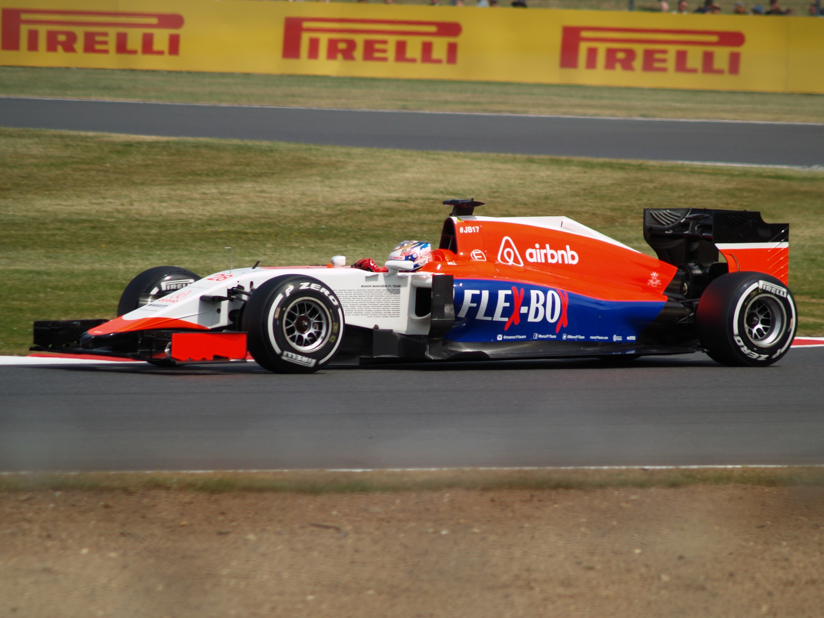 Will Stevens driving the Manor F1 Team's MR03B at Silverstone during Friday practice at the British Grand Prix at Silverstone.